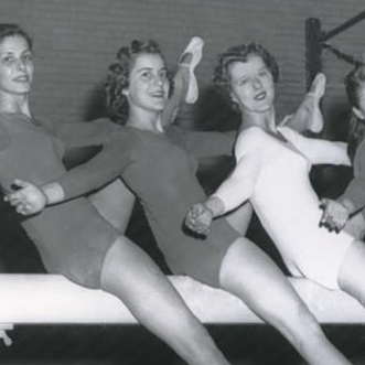 Jackie Klein and Judy Howe in a 1956 Press Photo US Olympic gymnasts